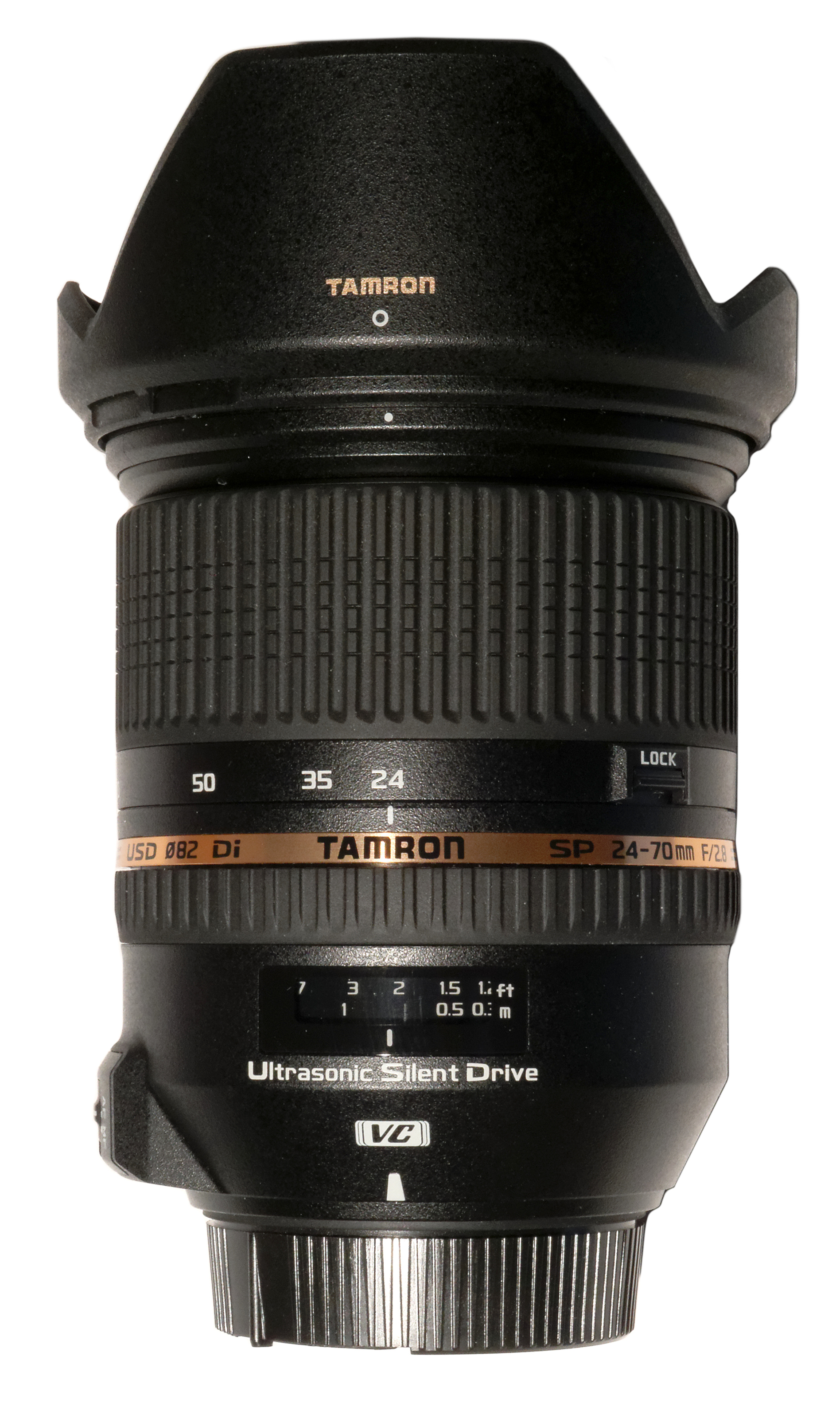 Objectif Tamron SP AF 24-70mm F/2.8 Di VC USD monture Nikon.